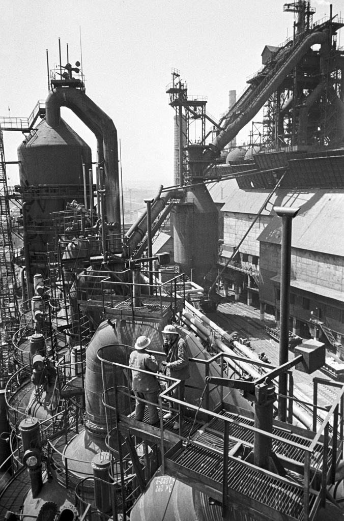 “Construction of second blast furnace”. Construction of the second blast furnace at the Zapadno-Sibirsky metallurgical plant in Novokuznetsk (at present, Zapadno-Sibirsky metallurgical combine).